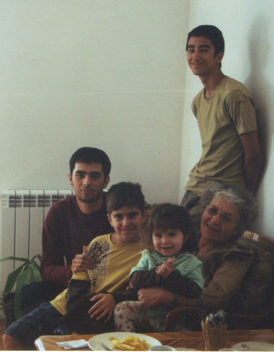 Edvard Chubaryan 75th Birthday, 05 May 2011 05, No. 50